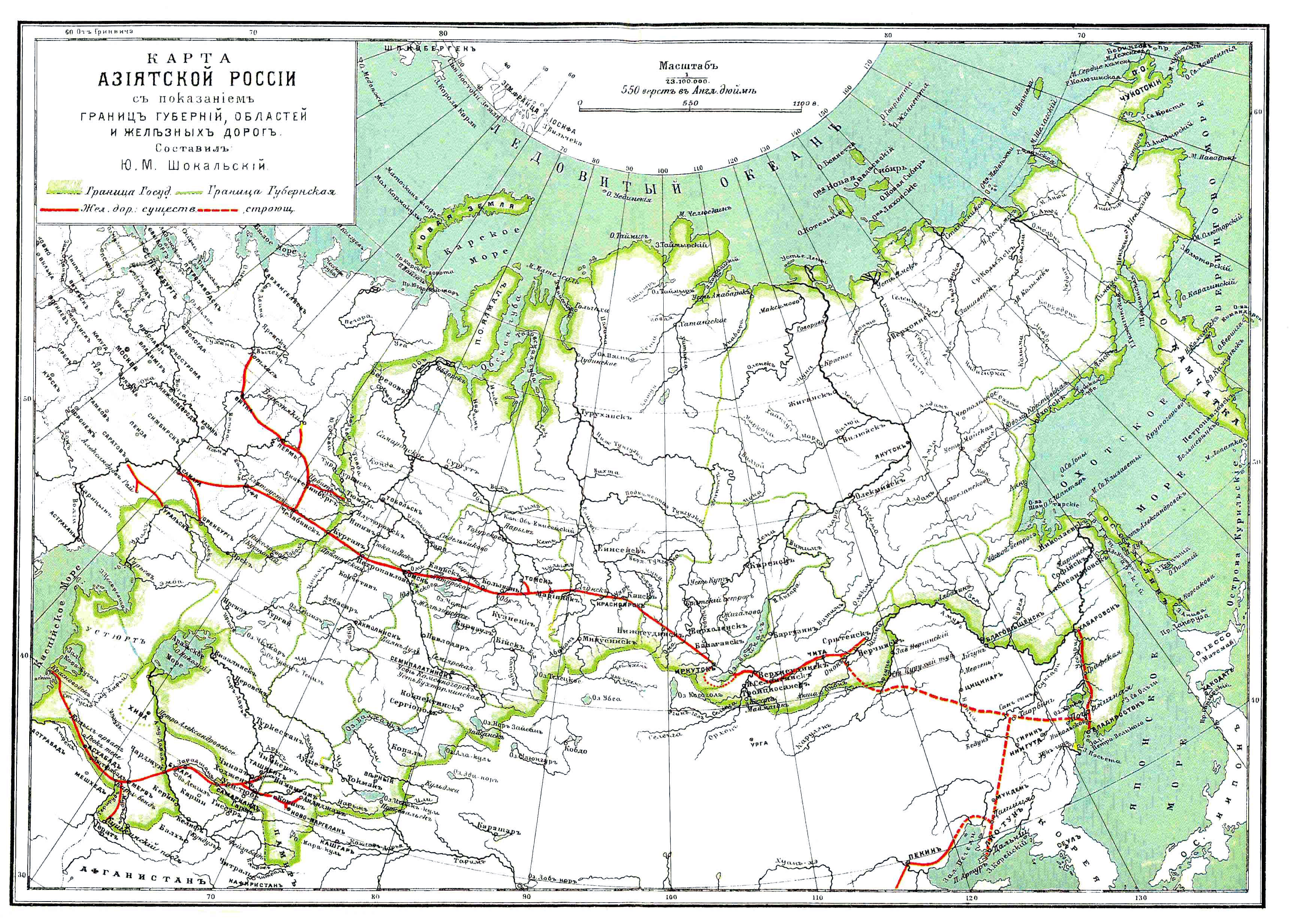 Illustration from Brockhaus and Efron Encyclopedic Dictionary (1890—1907)